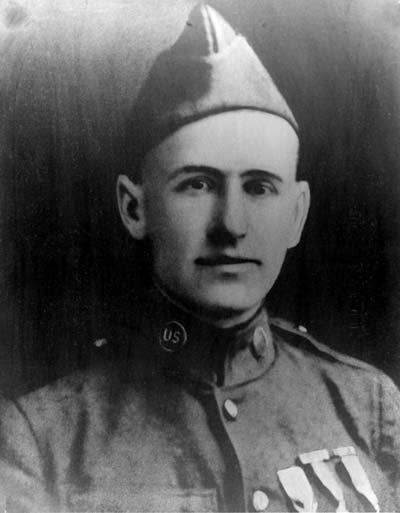 Jesse N. Funk, Private First Class, United States Army, awarded the Medal of Honor for actions in World War I